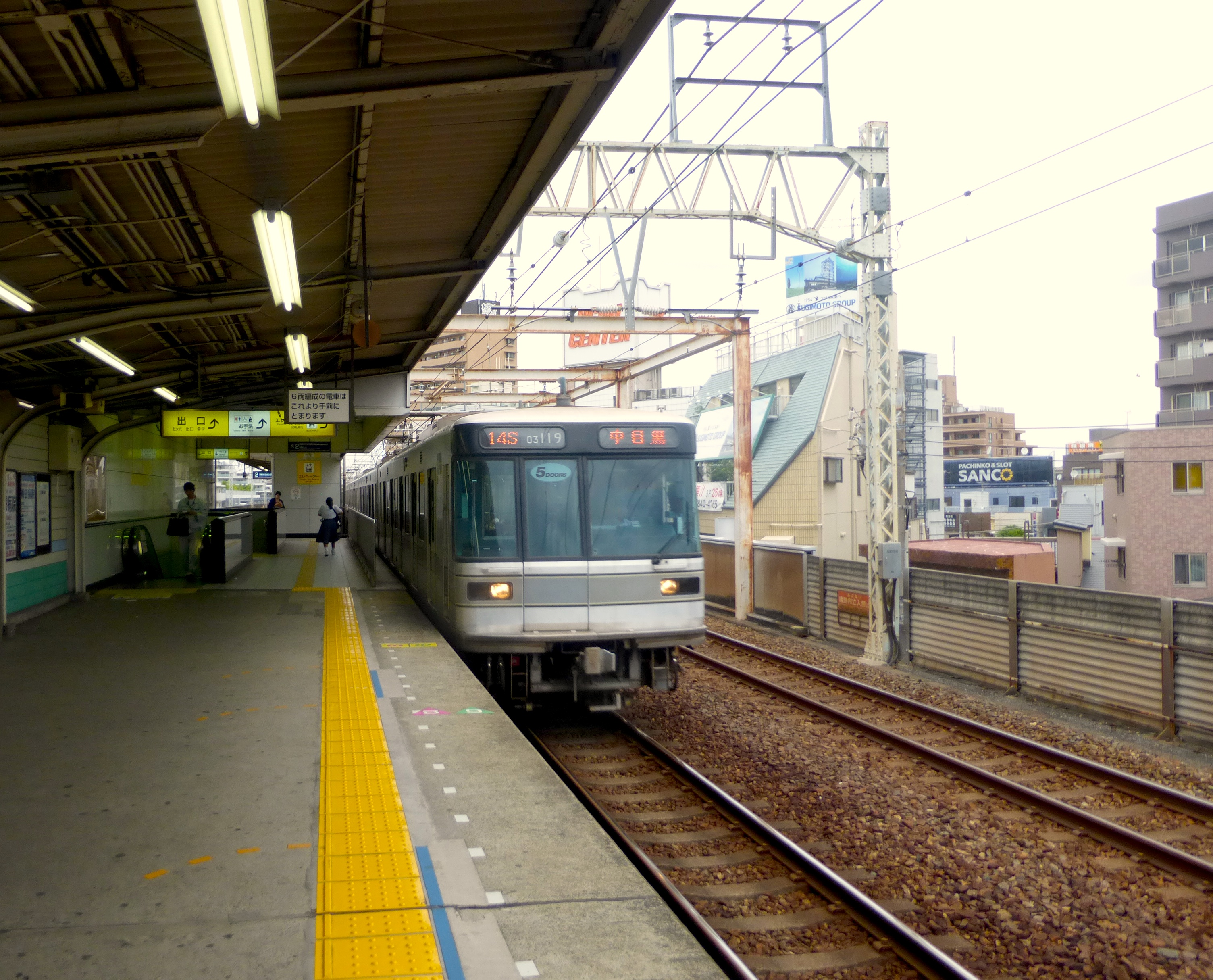 Umejima Station platform 1 and train (梅島駅の1番ホームと電車)